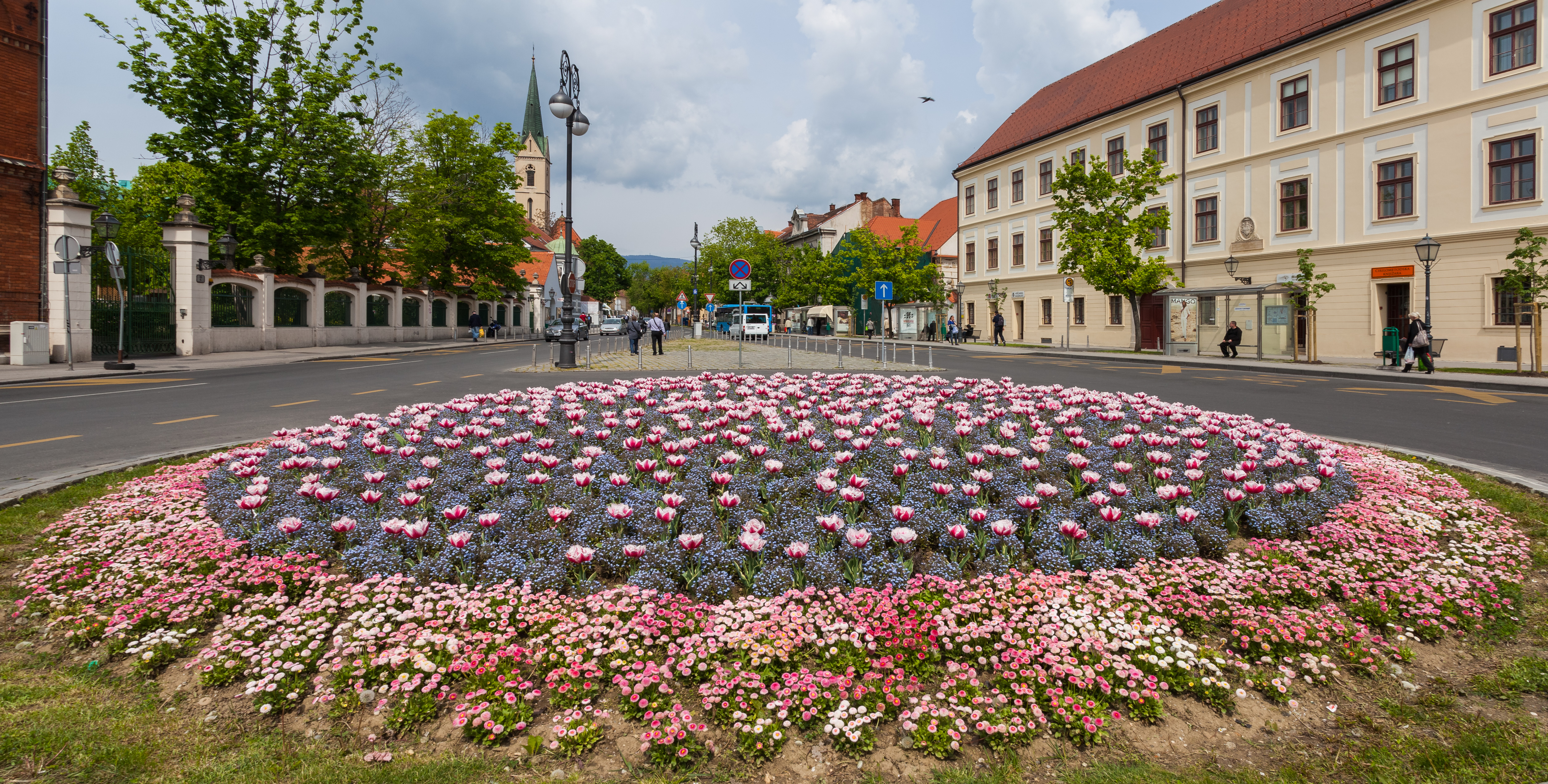 Flowers in the Kaptol Street, Zagreb, Croatia